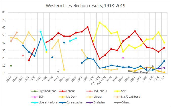 Western Isles election results